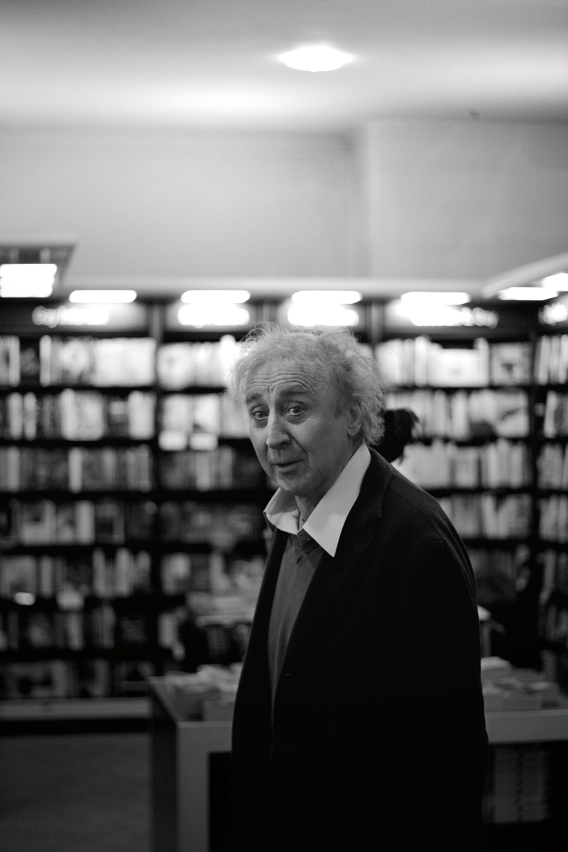 Gene Wilder at a book signing for My French Whore